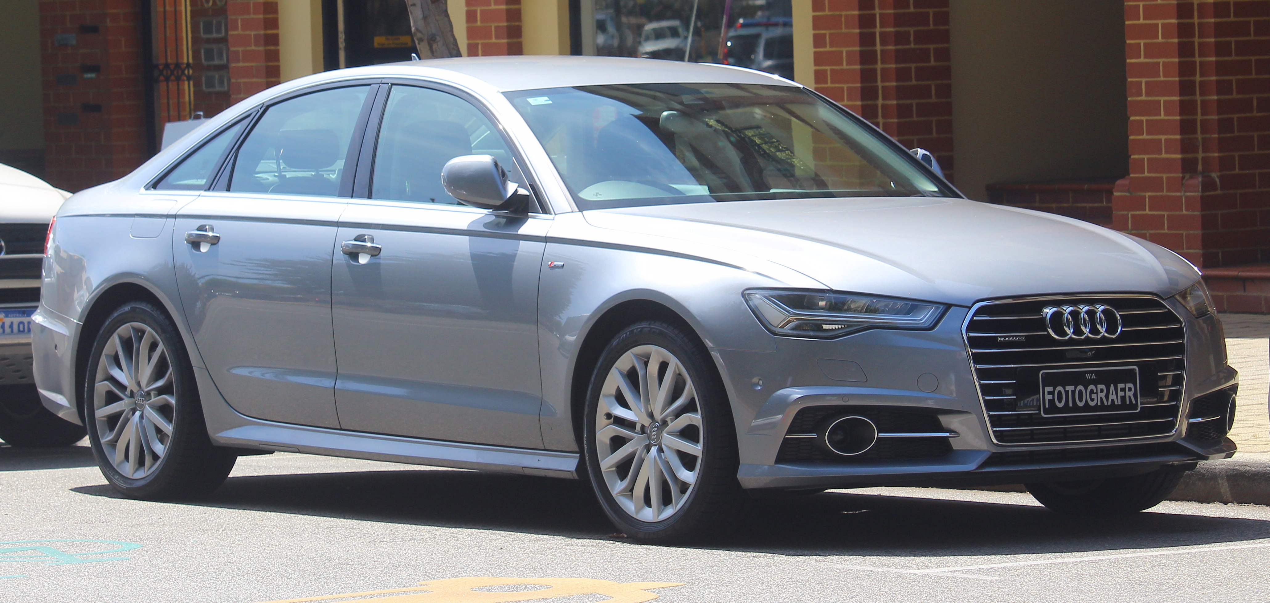 2016 Audi A6 (4G MY17) 3.0 TDI Biturbo sedan. Photographed in Fremantle, Western Australia, Australia.